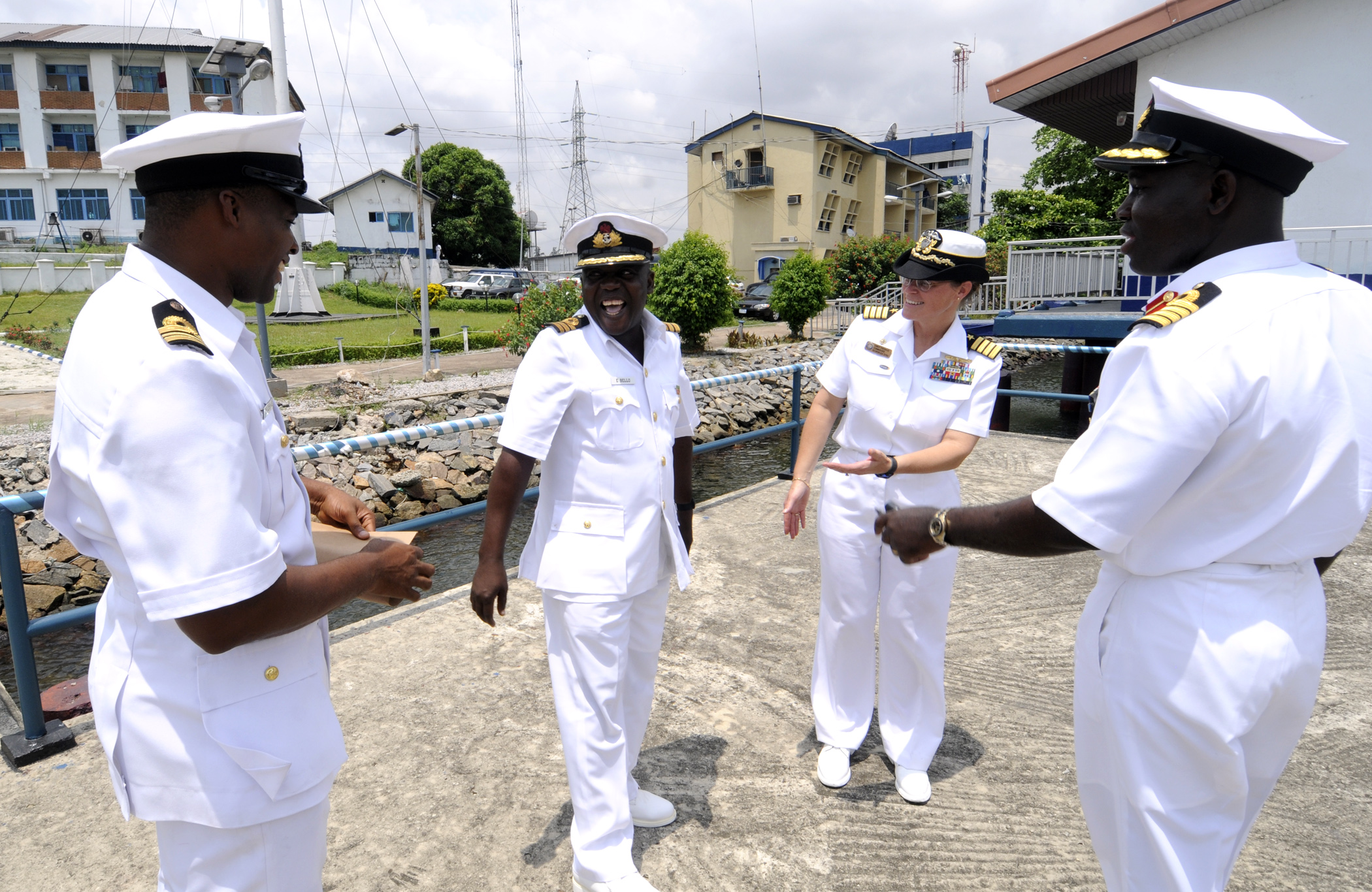 LAGOS, Nigeria (March 8, 2010) Capt. Cindy Thebaud, commander of Africa Partnership Station West, center right, and Nigerian Capt. Adejimi Osinowo, far right, deputy commander of Africa Partnership Station West, embarked aboard the amphibious dock landing ship USS Gunston Hall (LSD 44), meet with Nigerian navy Cmdr. Enoche Bello, middle left, and Nigerian navy Lt. Cmdr. George Chuckwuma Azuike, far left at Nigeria Naval Station Apapa. Bello and Chukwuma were both embarked aboard USS Nashville (LPD 13) for Africa Partnership Station 2009. Africa Partnership Station is a multinational initiative for U.S. and international partners to improve maritime safety and security on the African continent. (U.S. Navy photo by Mass Communication Specialist 1st Class Martine Cuaron/Released)